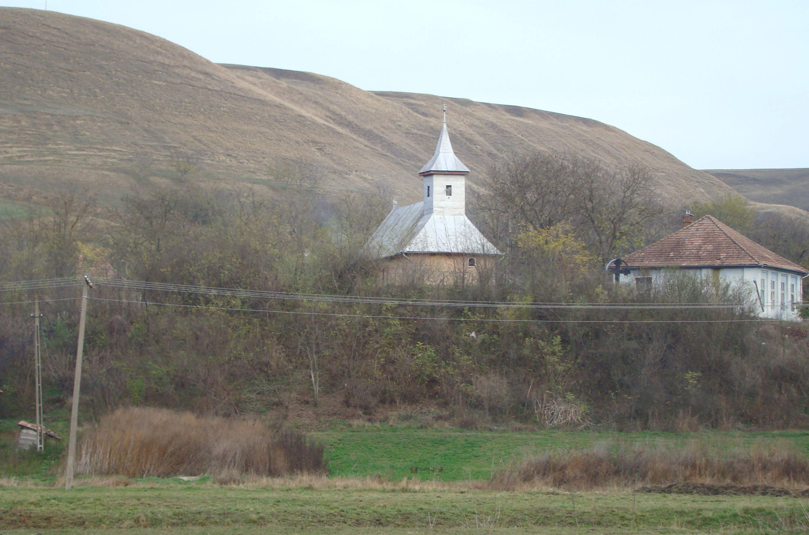 Vaideiu, Mureș county, Romania